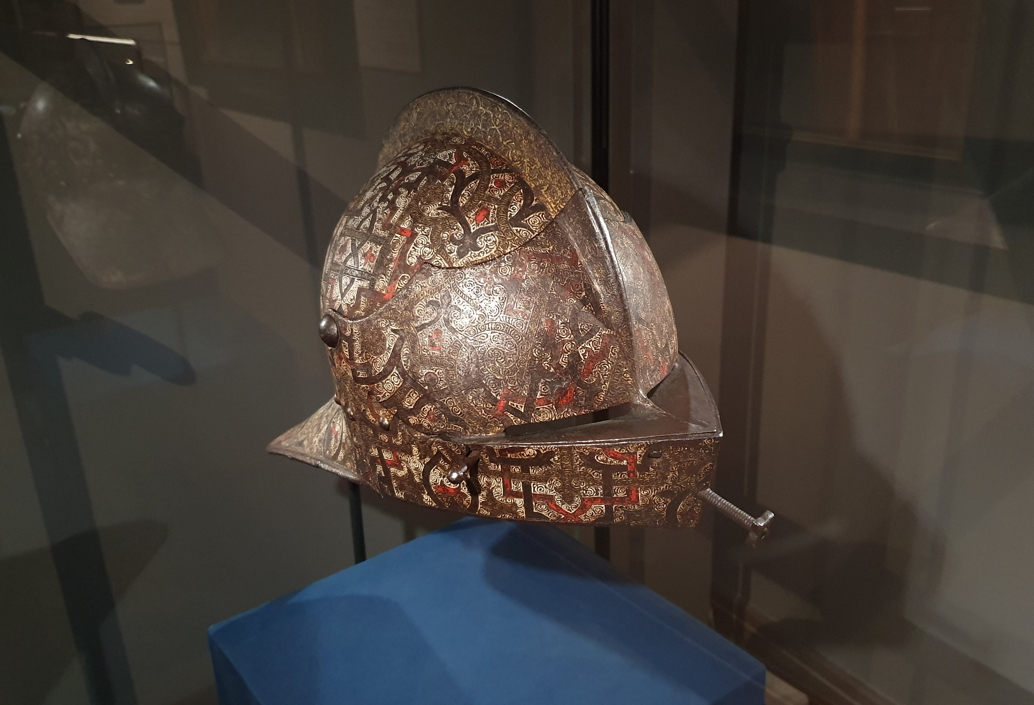 Tournament helmet (sallet) of Mikołaj "the Black" Radziwiłł. The helmet was made by Kunz Lochner in Nuremberg, Germany, 1555. It was photographed during an exhibition at the Palace of the Grand Dukes of Lithuania.